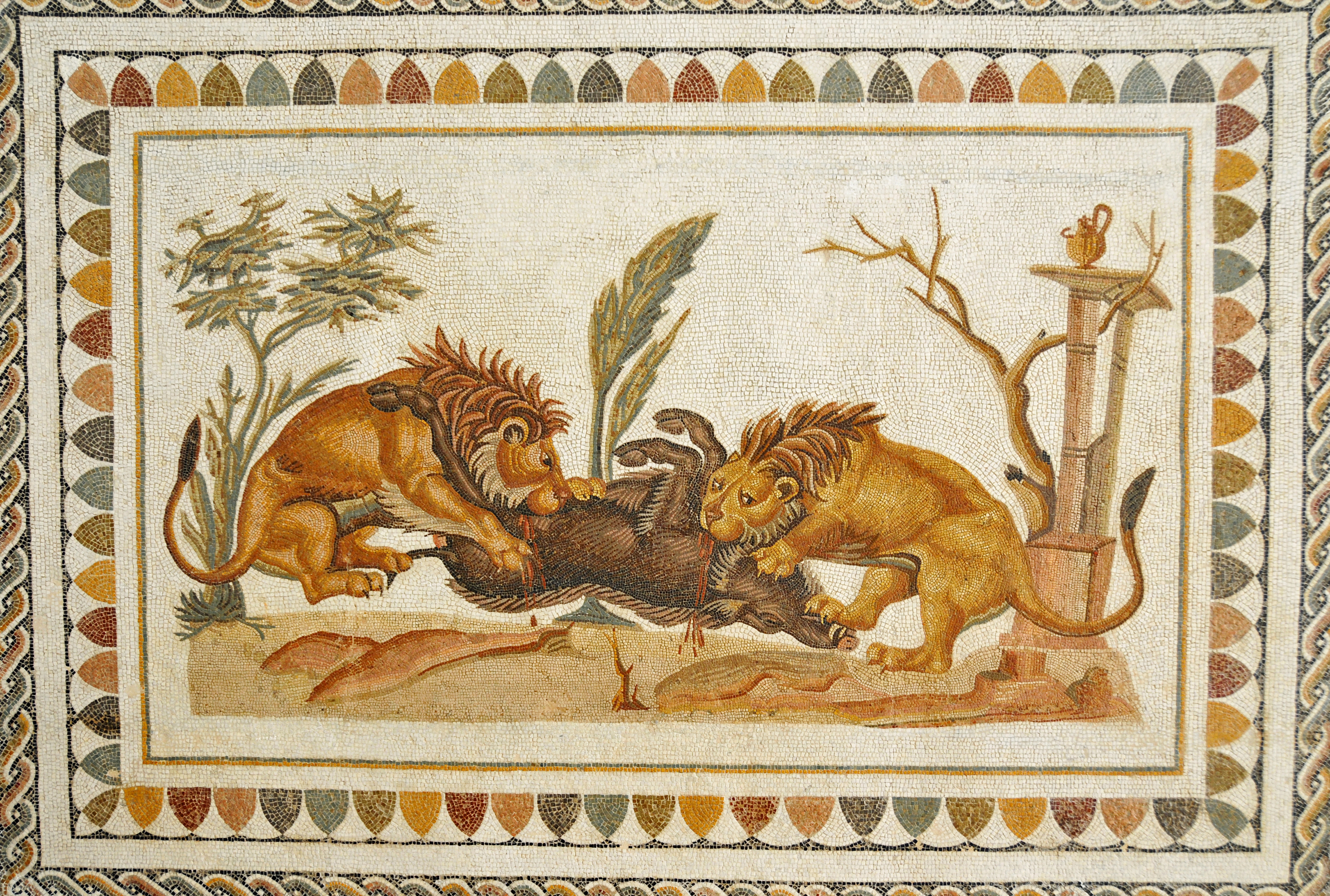 Lions devouring a boar in a mosaic from the middle of the 2nd century AD